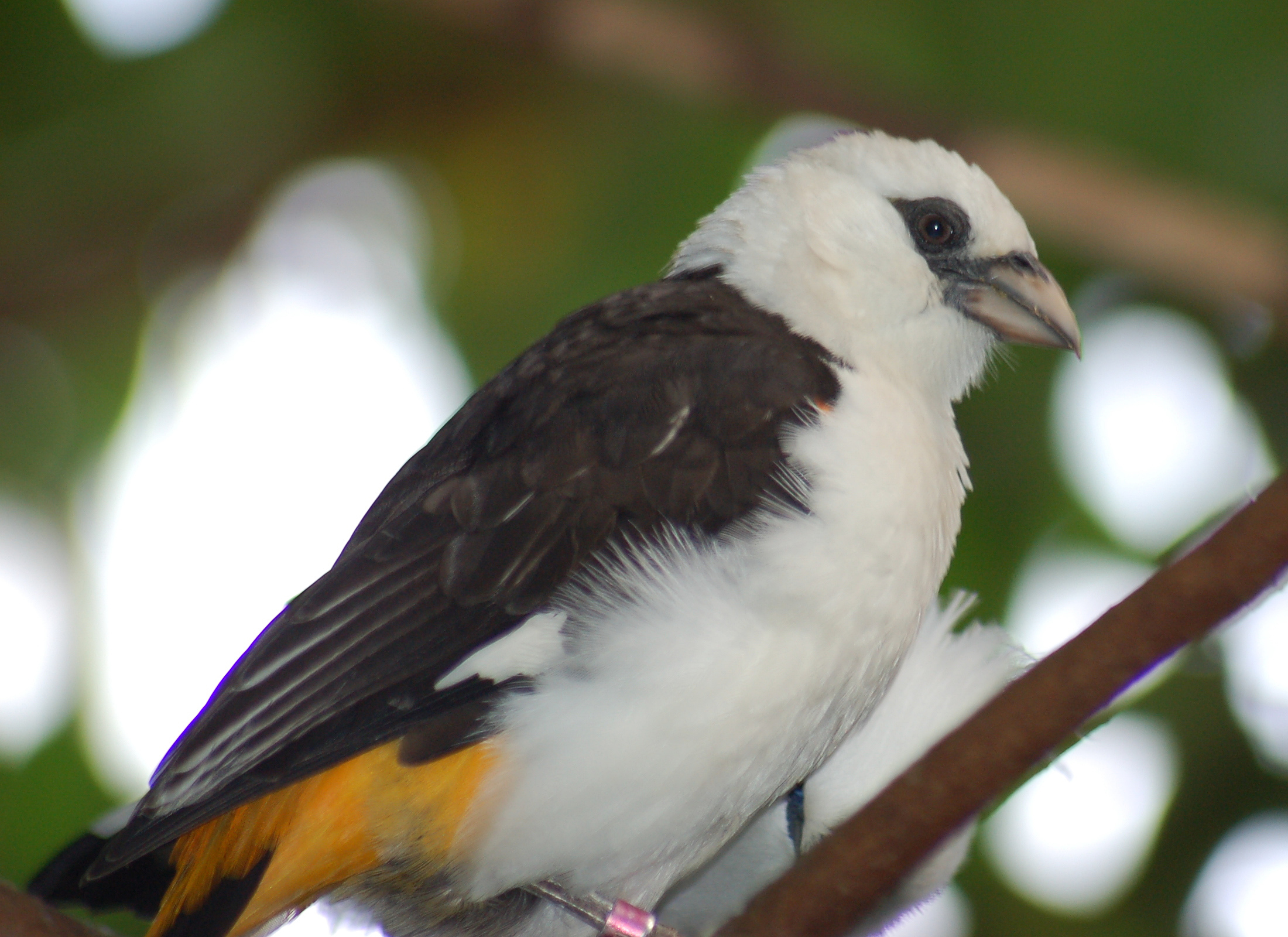 A photograph of a White-headed Buffalo-weaveren (Dinemellia_dinemelli en ). Photo taken at the National Aviary.